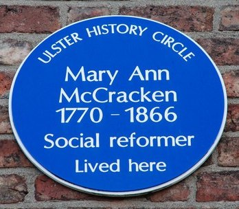 McCracken plaque, Belfast. This plaque, in Donegall Pass, commemorates Mary Ann McCracken There is also a plaque commemorating her brother Henry Joy 488752.